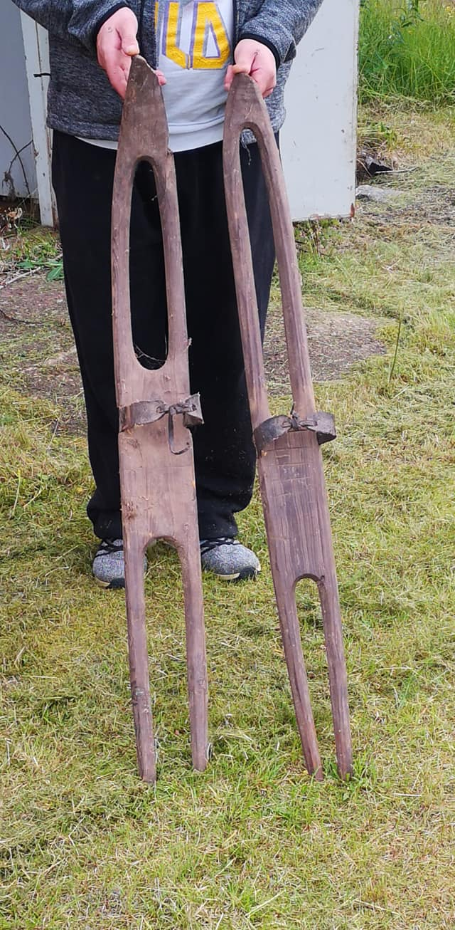 These wet bog skis prevented sinking in the wetland and where used during haymaking on bogs in nothern Sweden.